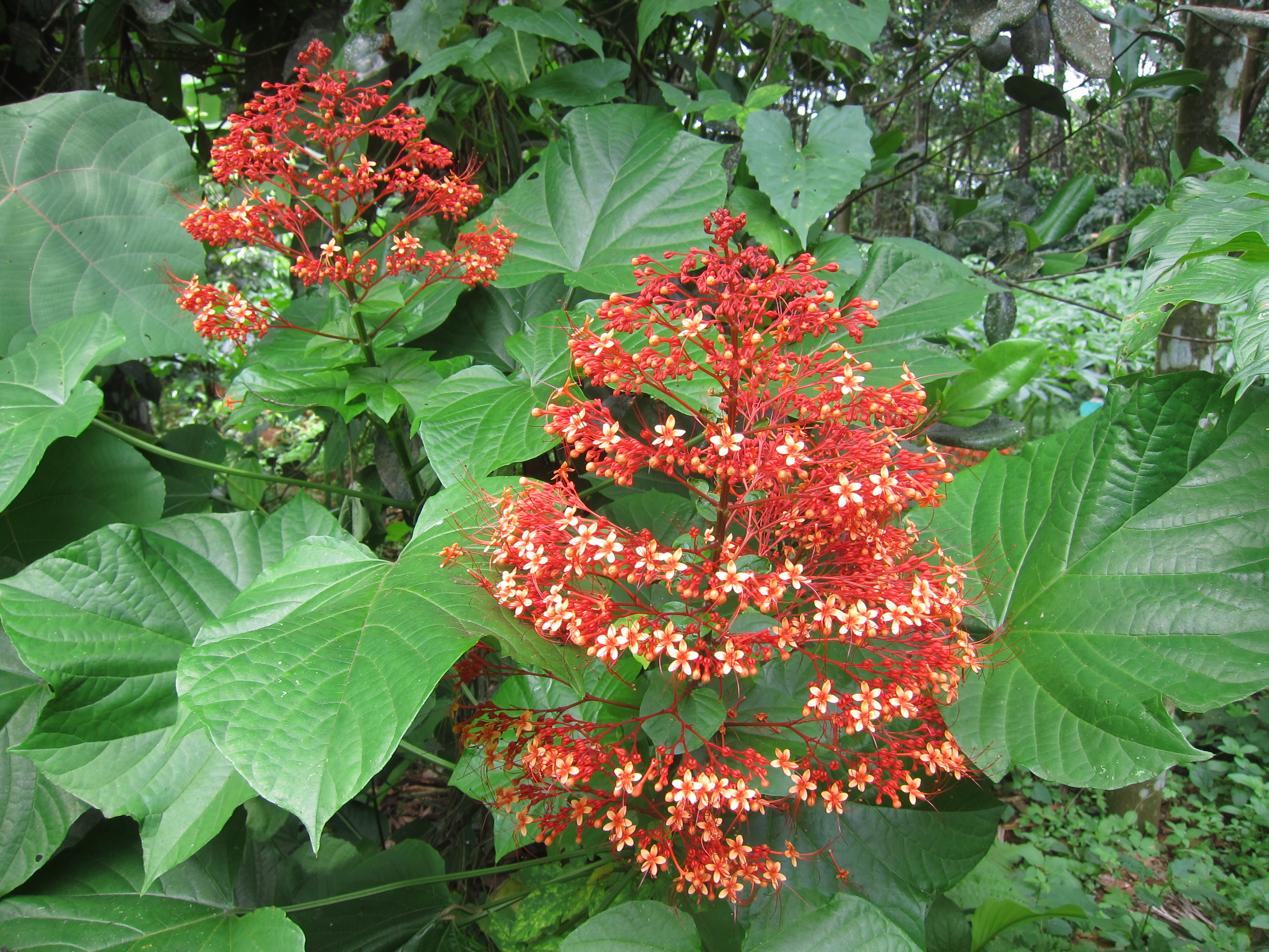 Red Pagoda Tree